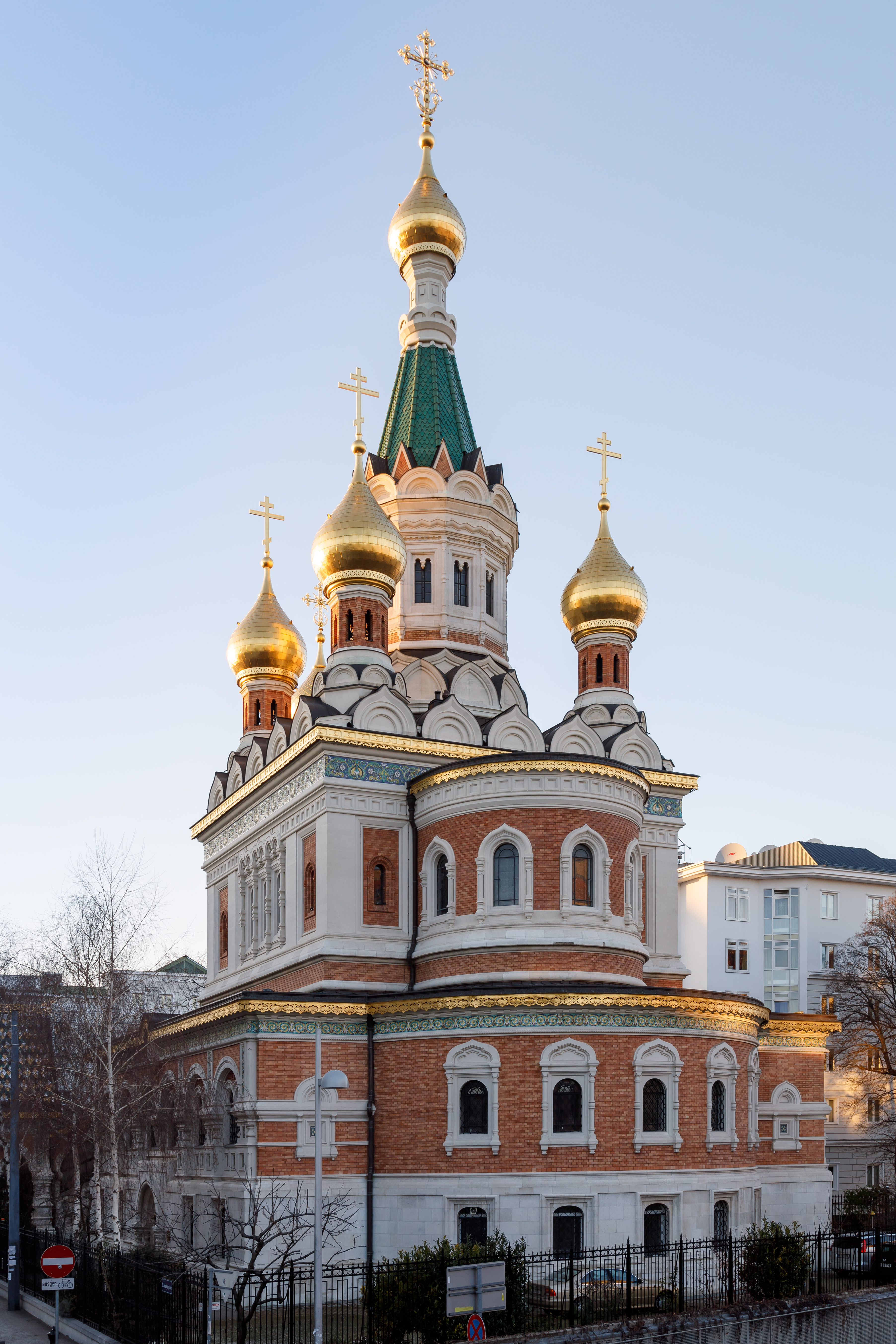 Vienna, Austria: Saint Nicholas Cathedral, Vienna